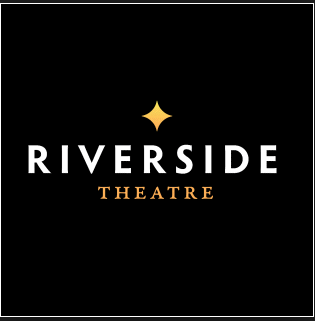 Riverside Theatre Logo